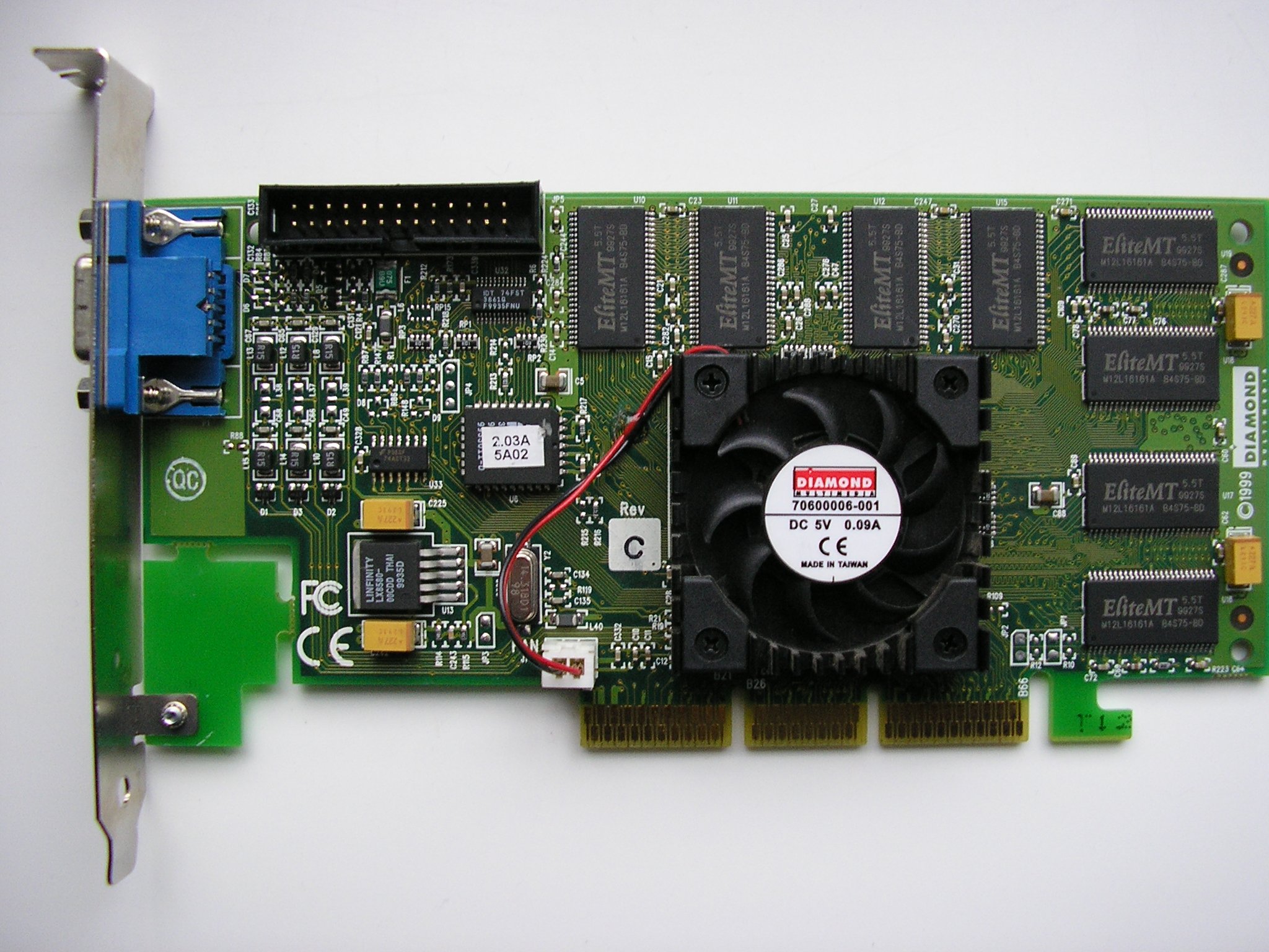 Diamond Viper V770 Ultra "Rev C" 1999 on the white sticker: VIPER V770U ATX AGP 32MB T3 chip: nVidia TNT2 Ultra memory: 32MB SDRAM speed: 150MHz engine clock, 183MHz memory clock, 300MHz RAMDAC This card was Diamond's flagship before the S3 merger in 1999.